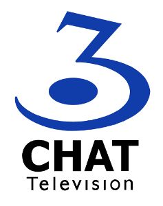 CHAT TV logo- CHAT 6&3 Television Logo as provided by CHAT-TV History of Image:CHAT Blue w Black Font.jpg 2008-11-24T18:52:21Z OKBot (Talk | contribs) (116 bytes) (Non-free 750 × 948 image, :en:Template:Non-free reduce|Non-free reduce ) 2007-04-24T02:17:48Z Cydebot (Talk | contribs) (95 bytes) (Robot - Renaming non-free template "logo" per :en:Wikipedia:Non-free content/templates| .) 2006-07-04T22:30:49Z Tim machan (Talk | contribs) (CHAT 6&3 Television Logo as provided by CHAT-TV) 2006-07-04T22:30:49Z Tim machan (Talk | contribs) (750x948) (153581 bytes)